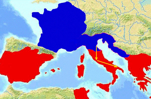 IMAGEN CREADA POR MI